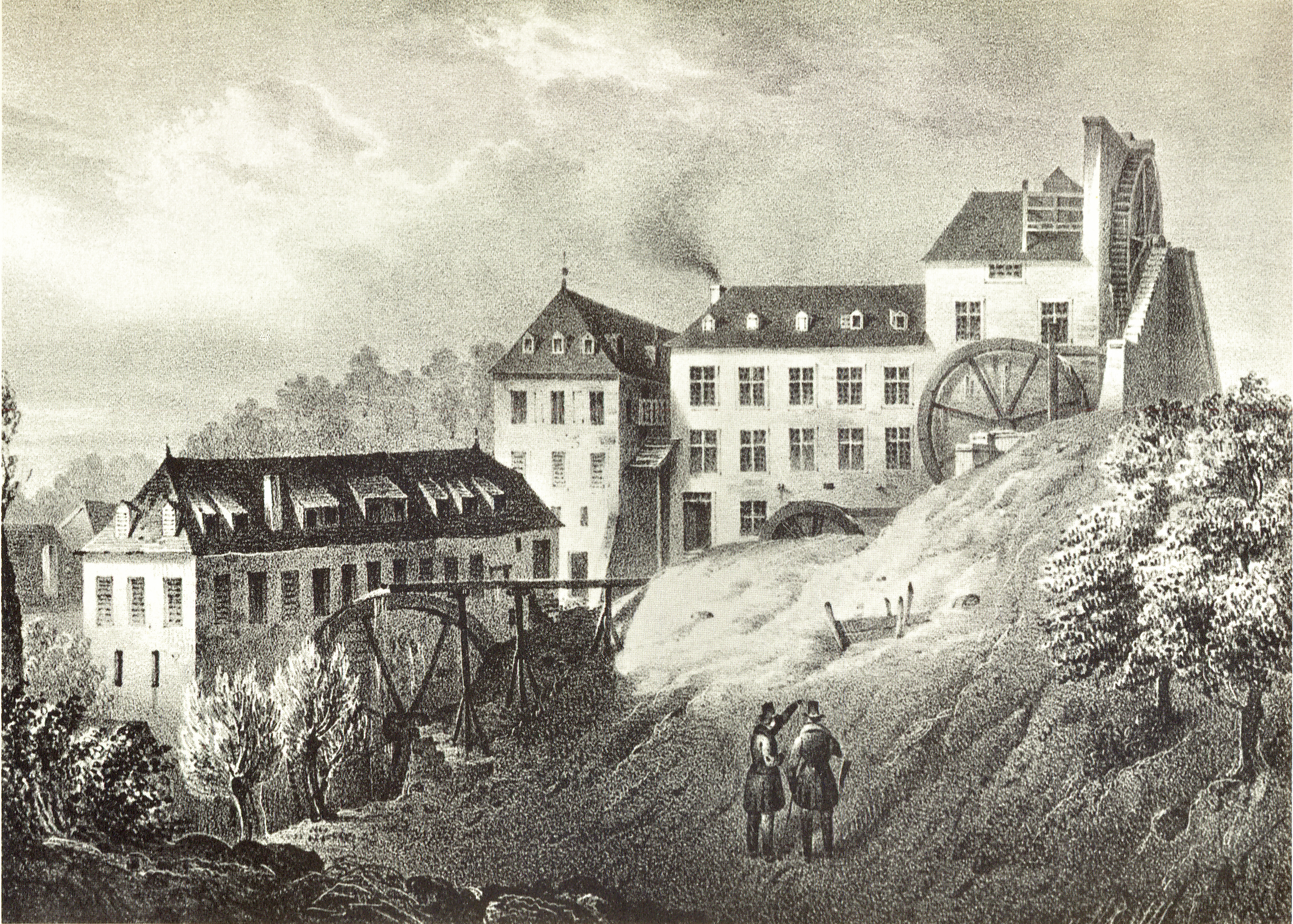 The paper company Lamort in Senningen, Luxembourg. Drawing.